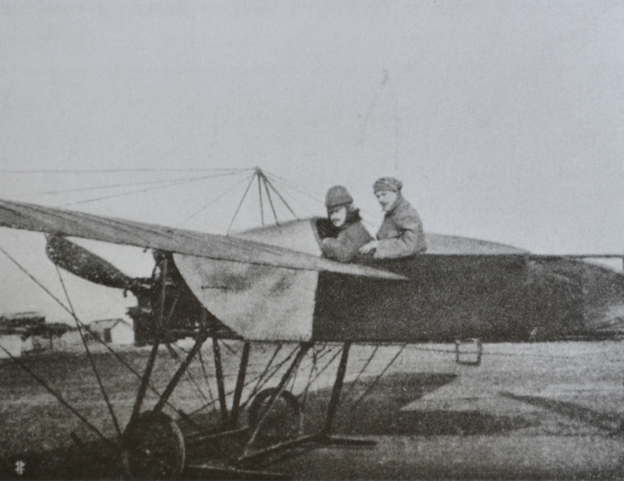 An Italian pioneer monoplane Caproni Ca.12 was the first aircraft to lift a paying passenger in Italy on April 26, 1912.